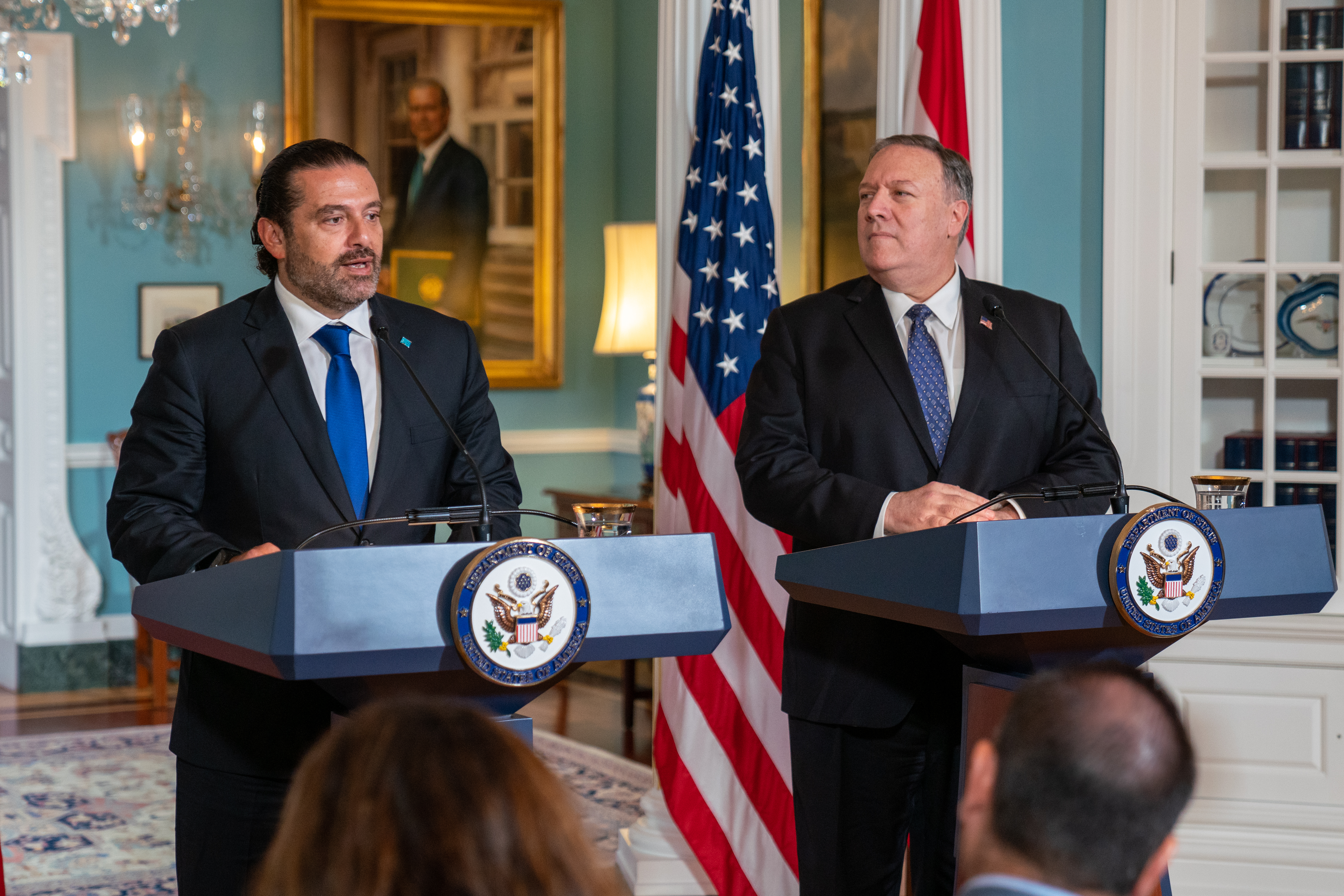 U.S. Secretary of State Michael R. Pompeo and Lebanese Prime Minister Saad Hariri deliver statements to the press at the U.S. Department of State in Washington, D.C., on August 15, 2019. [State Department photo by Ron Przysucha/ Public Domain]